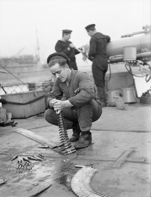 The Royal Netherlands Navy during the Second World War On board HNMS CAMPBELTOWN a Dutch sailor prepares 20 mm anti-aircraft ammunition. He is placing loose rounds into a belt clip.